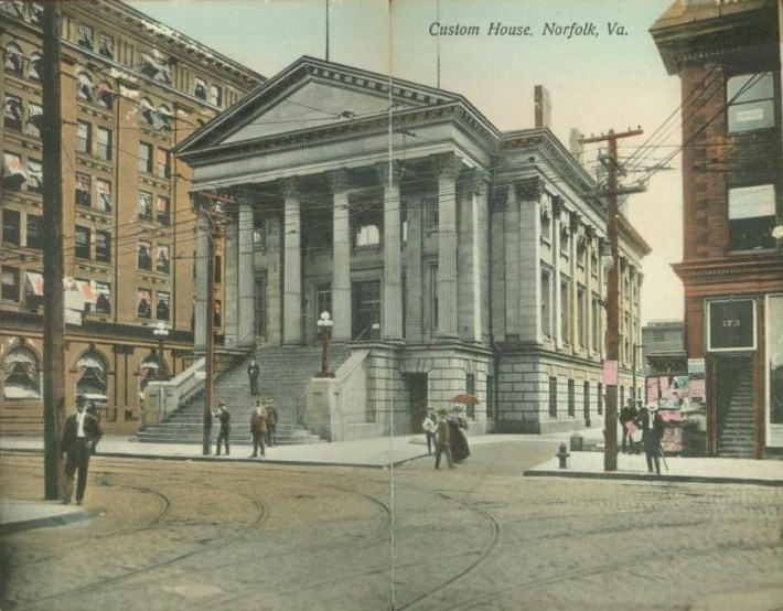 Postcard picture of the Custom House in Norfolk, Virginia, "c. 1900" according to eBay store Web page; the postcard is a folding "double" postcard